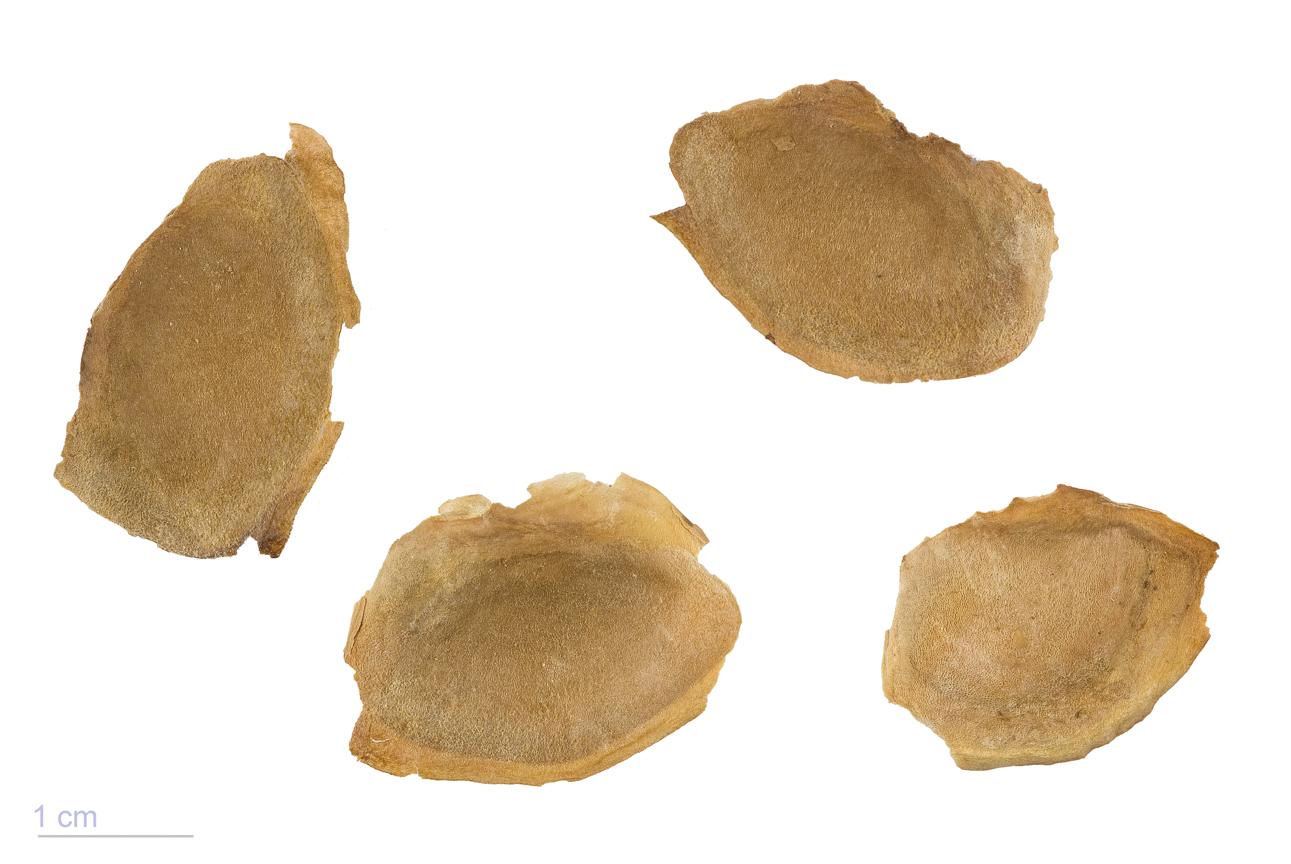 Khaya senegalensis , seeds